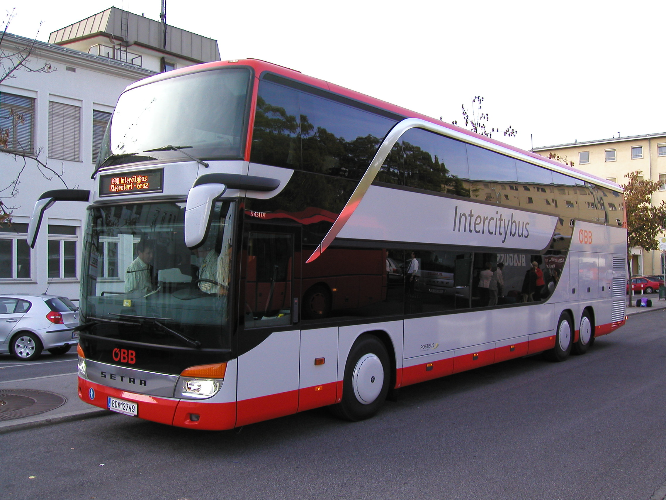 Setra S431 DT coach (reg. BD-12749) in Graz, Austria. ÖBB-Personenverkehr AG from Wien operator.